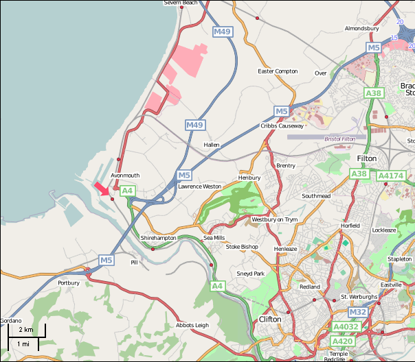 Map of the Severn beach line within Greater Bristol. Avonmouth Station is indicated.